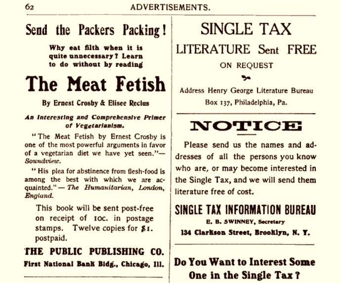 Advertisement for "The Meat Fetish" in Land and Freedom, volume 7, number 2, page 62.